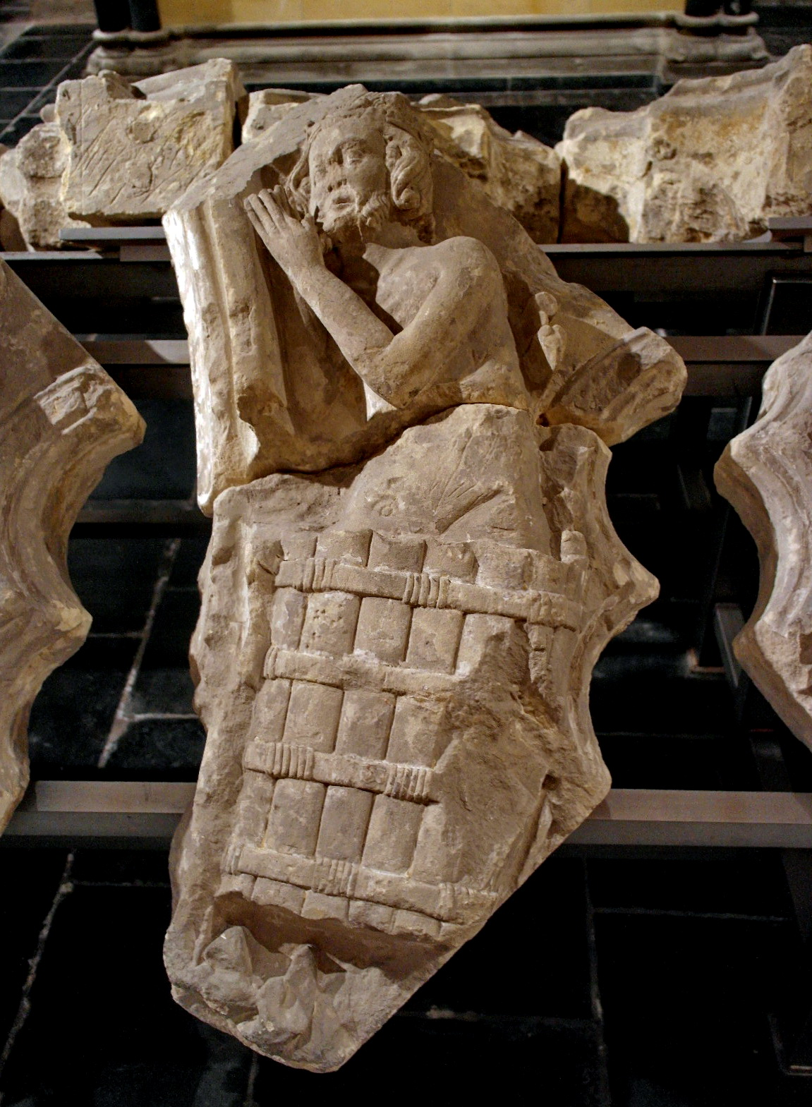 Fragment of a former Gothic rood screen, now in the East Crypt lapidarium of the Basilica of Saint Servatius in Maastricht, the Netherlands. The rood screen (doksaal), sculpted around 1300 of local limestone, once stood in front of the east choir, where it seperated the area reserved for the canons from the public areas of the church. It depicted scenes from the life of Saint Servatius, the patron saint of the church, but its exact shape is unknown. This particular fragment shows Attila the Hun being baptized by Saint Servatius. In front of the screen stood an altar with a life-size statue of the saint. The screen was demolished in 1732 and fragments were burried underneath the church floor, where they were discovered in 1915.